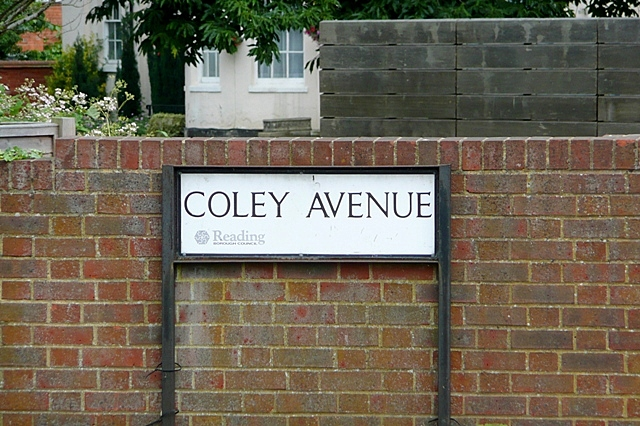 Coley Avenue. To see why this photo is significant see 1354022